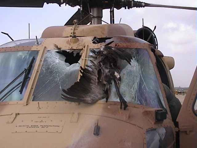 IAF UH-60 after birds strike, view from outside. See also Image:IAF UH-60 after birds strike inside.jpg March 2, 2003: These photographs show a Blackhawk helicopter that hit an migrating Crane at 800 feet AGL on the western migration route (Latrun - Kfar Kassem route). This was the first day of Bird Plagued Zone Operations in the Israel Air Force for spring 2003. The bird is a Common Crane (Grus grus)